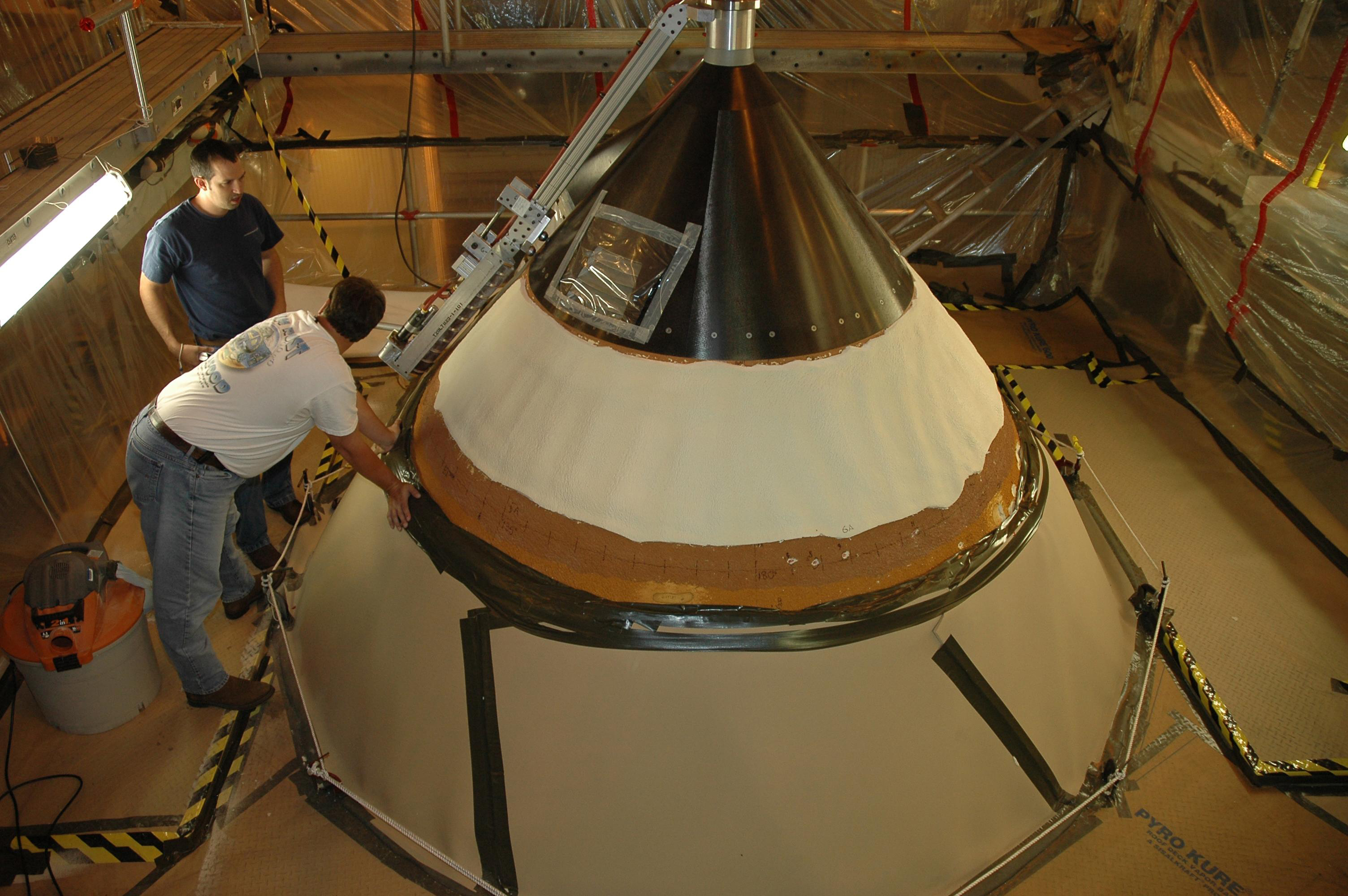 The STS-117 External Tank after its repair. It has a different look.